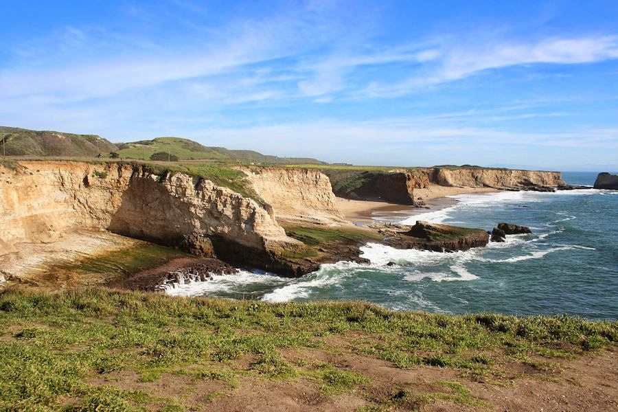 February 2015